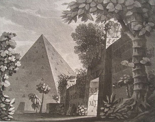 Gioachino Rossini - Semiramide - Alessandro Sanquirico, Stanislao Stucchi - Milan 1824 - act 2, scene 8 - Parte remota attigua al mausoleo di Nino